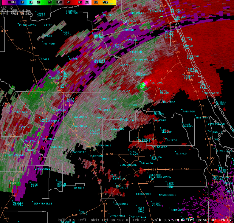 The Doppler radar signature of a tornado over DeLand, Florida.